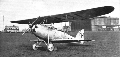 Pander E